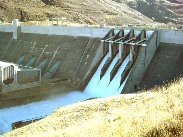 The Clyde Dam, Central Otago.